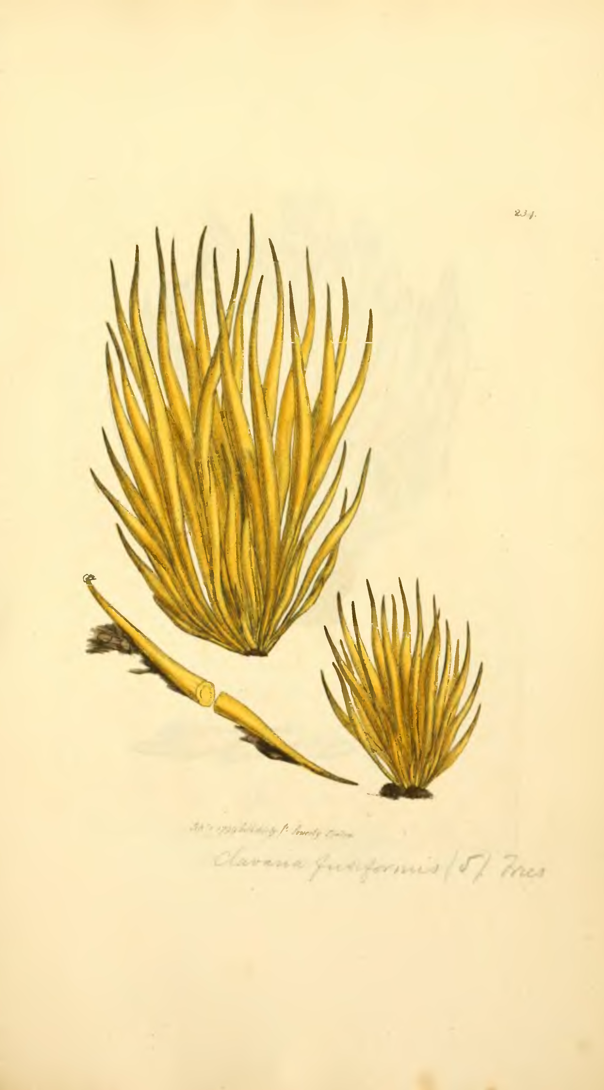 This is plate 234 from James Sowerby's Coloured Figures of English Fungi or Mushrooms. See below for more details.